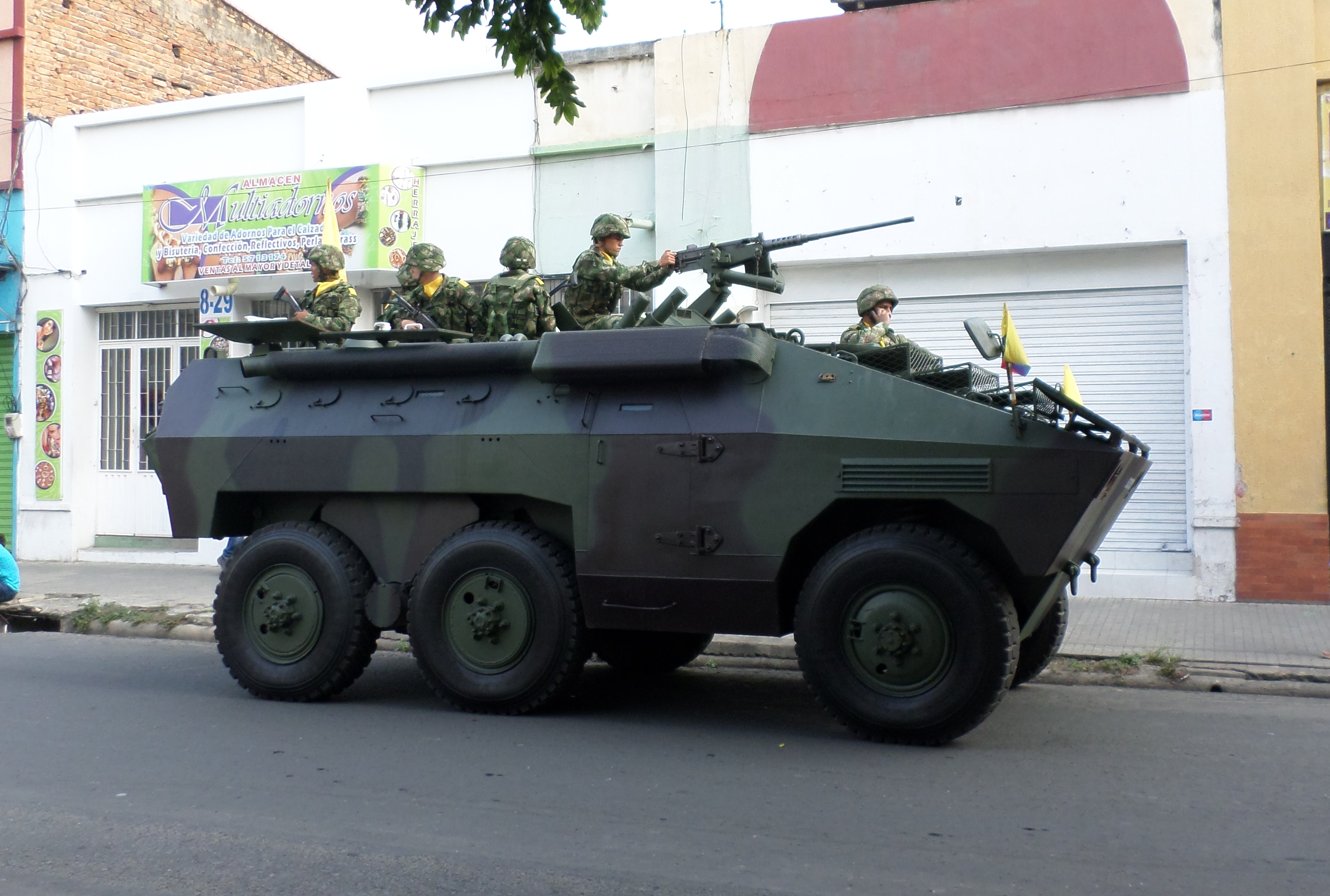 Tanque de Guerra en el desfile por la Batalla de Cúcuta